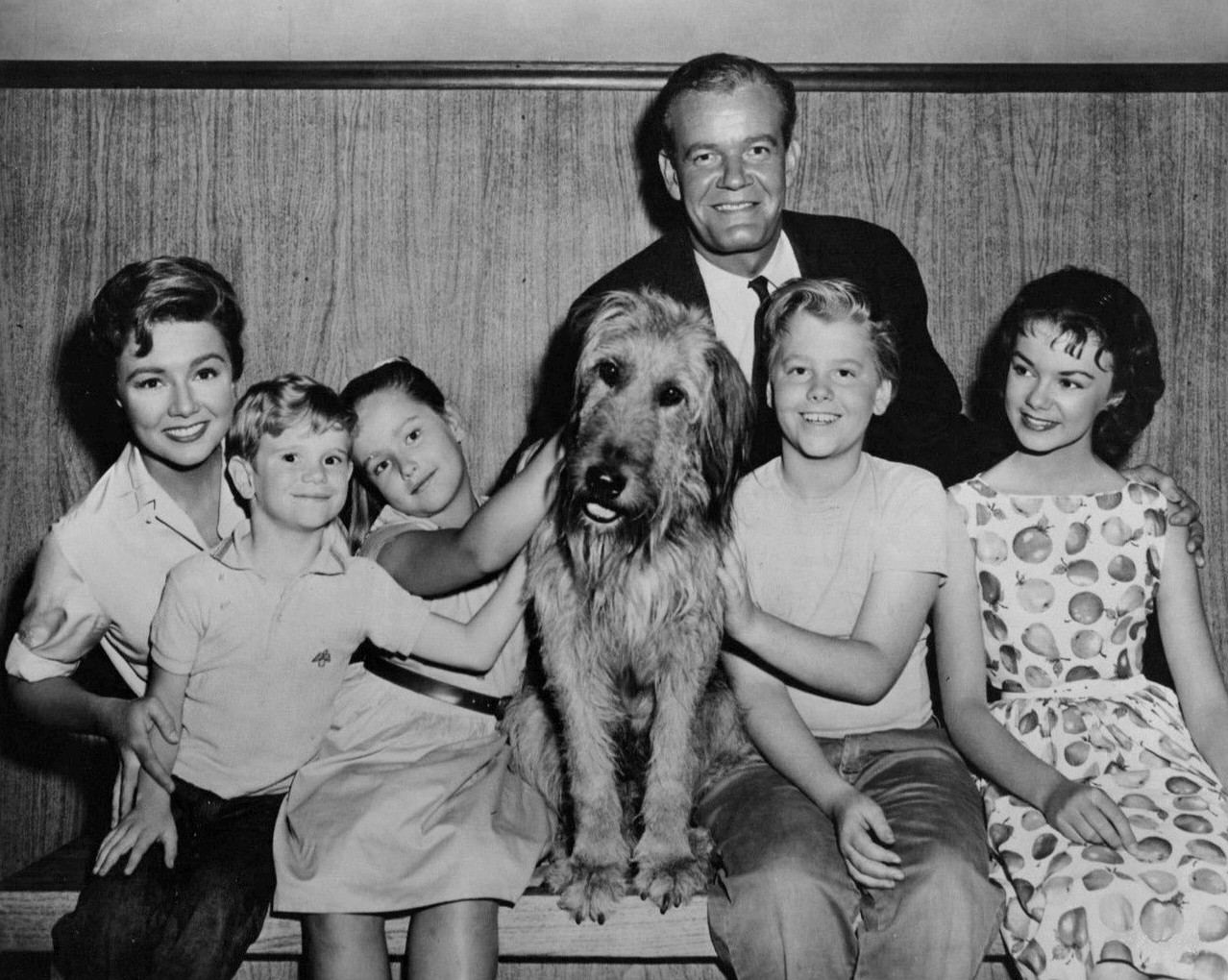 Photo of the cast of the television series Room for One More. From left: Peggy McCoy, Ronnie Dapo, Carol Nicholson, Andrew Duggan and Tramp, Tim Rooney and Ahna Capri. The item has no copyright markings on it as can be seen in the links above.